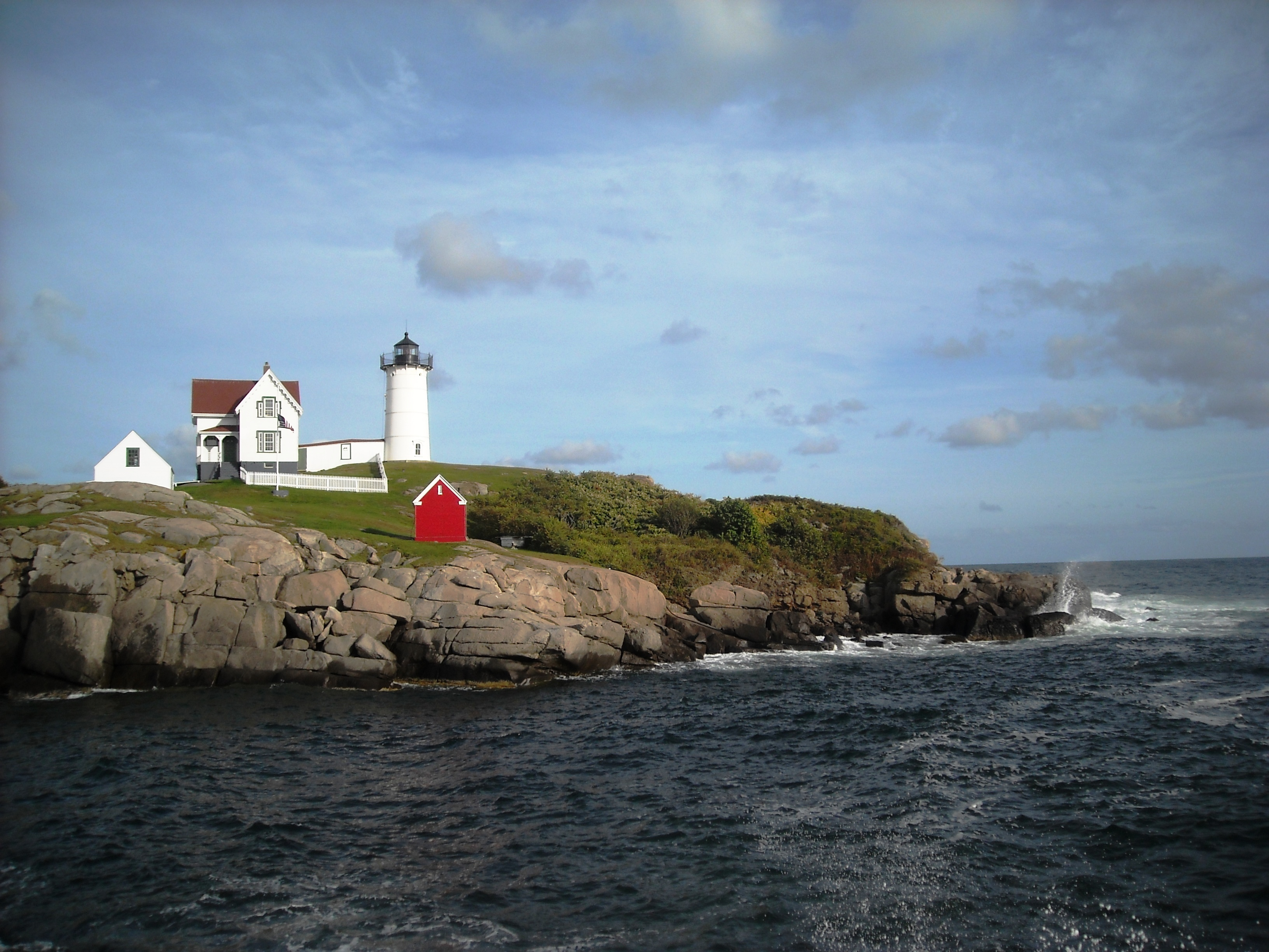 Image originally published in Queer Places: Retracing the Steps of LGBTQ people around the World Authored by Elisa Rolle